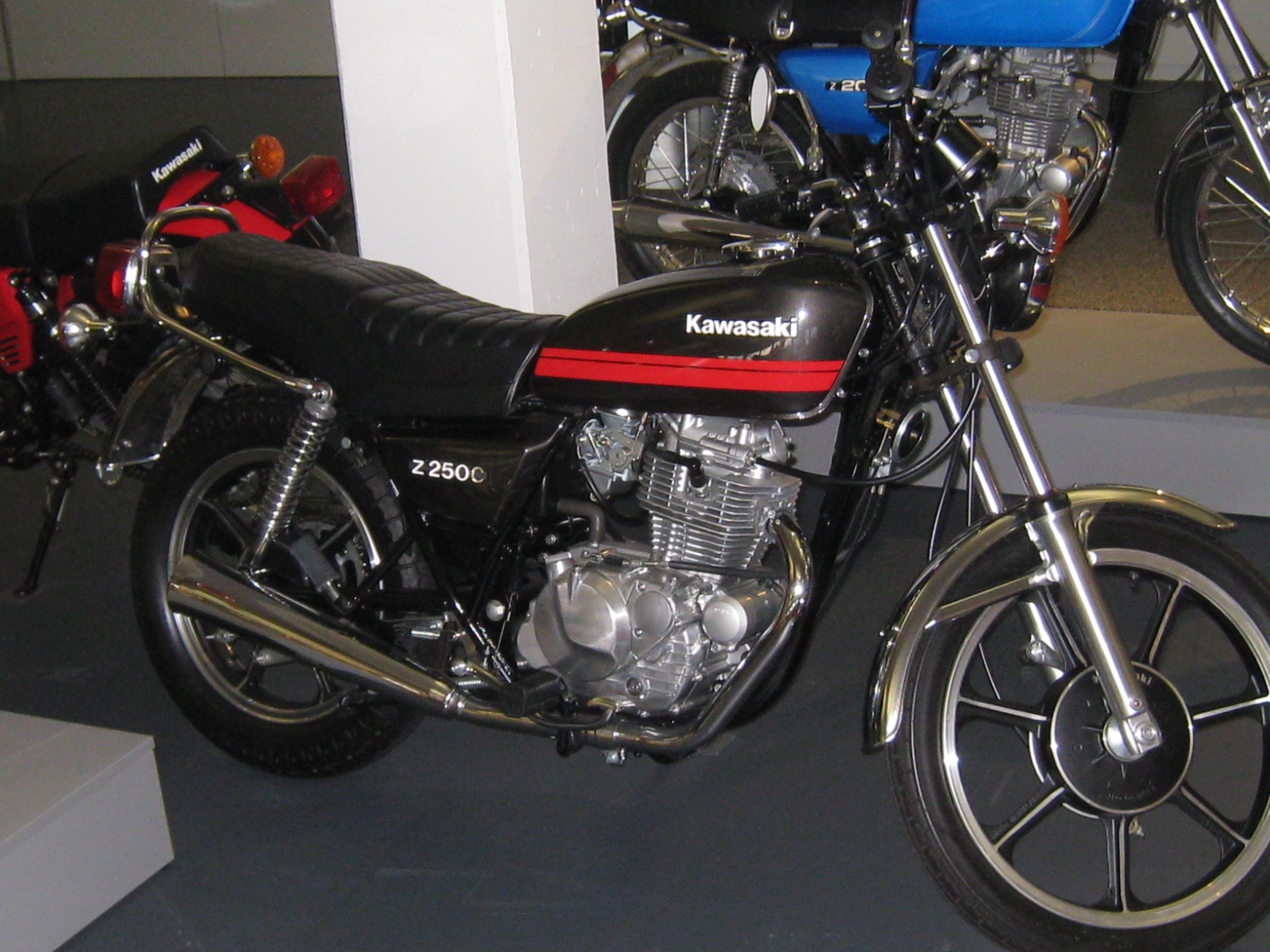 Kawasaki motorcycle @ FIBAG Switzerland